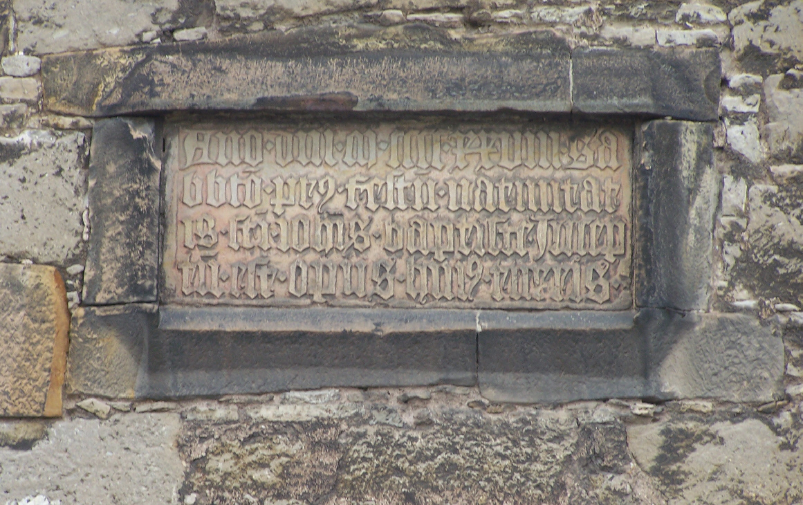 The memorial plate about the beginning of the bell tower.